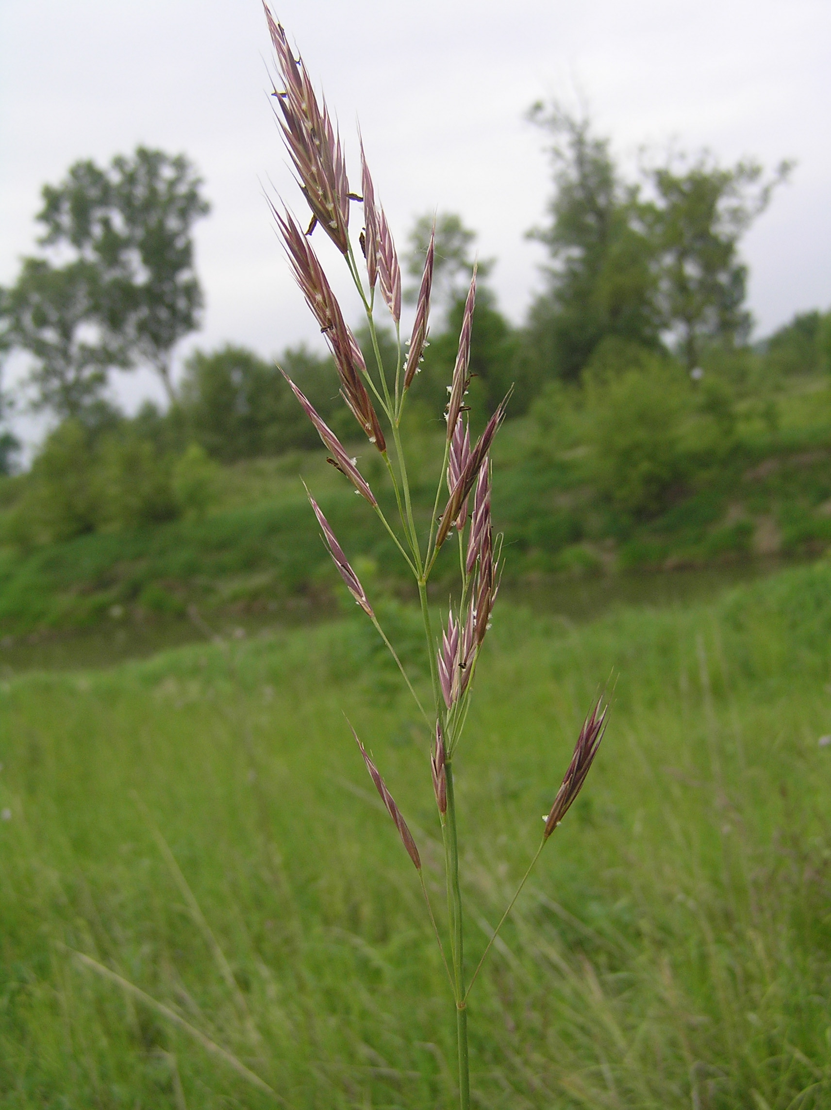 Bromus erectus, Dub nad Moravou, Moravia, Czech Republic